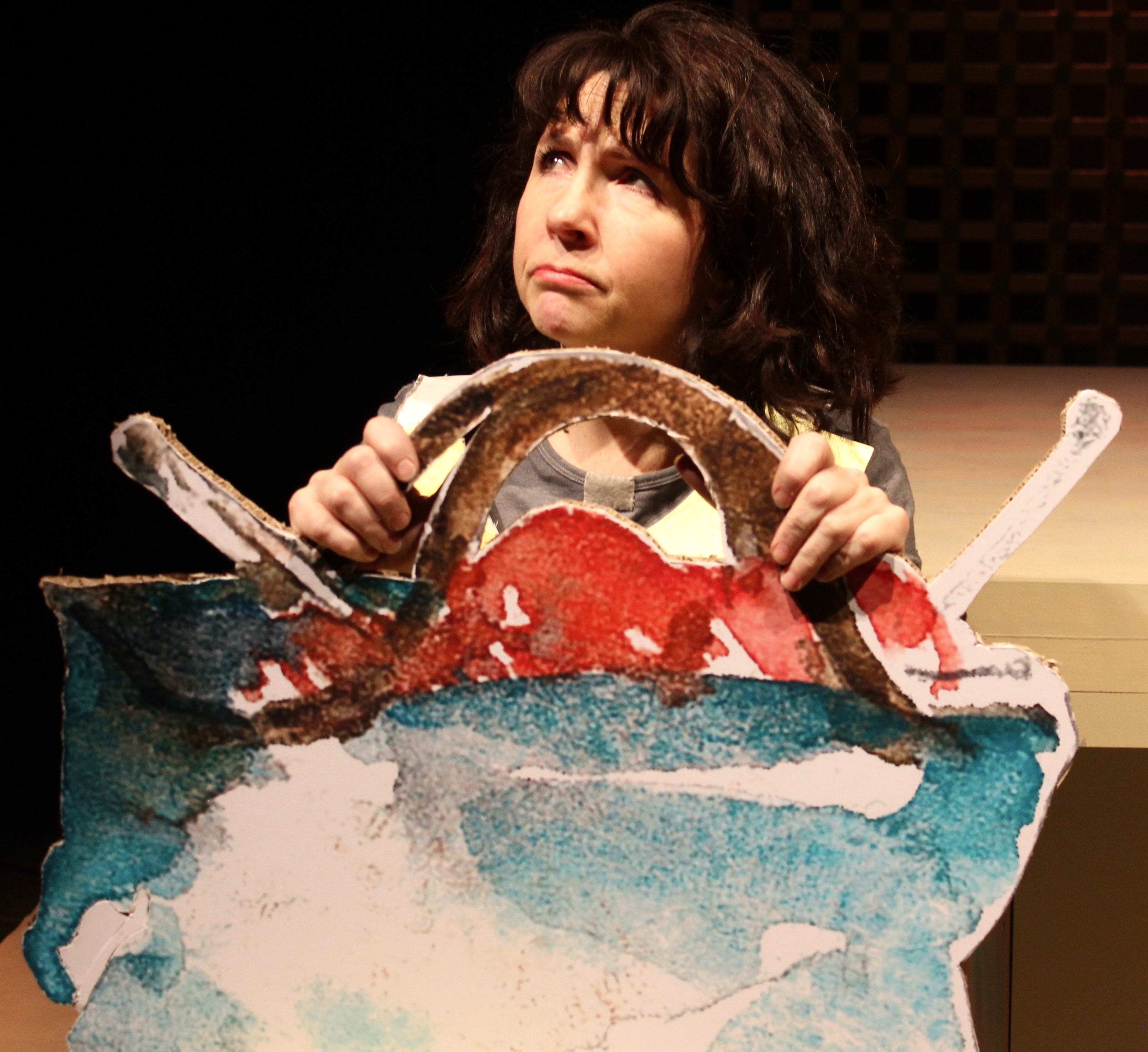 Barbara Sprout, played by Jo Pugh, in Out of the Ordinary